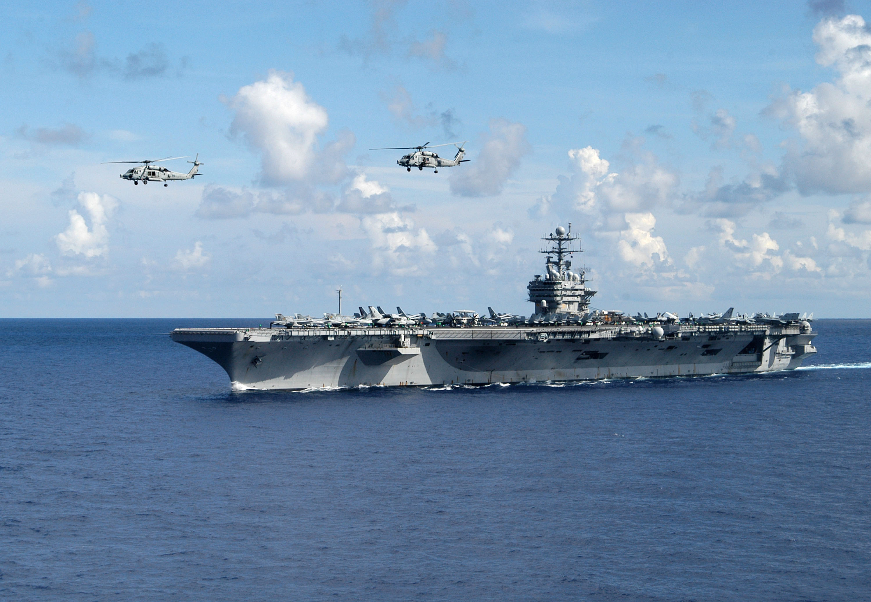 Atlantic Ocean (July 15, 2005) – Two HH-60H Seahawk helicopters conduct operations near the Nimitz-class aircraft carrier USS Theodore Roosevelt (CVN 71) while underway in the Atlantic Ocean. The Roosevelt Carrier Strike Group is conducting Joint Task Force Exercise (JTFEX). U.S. Navy photo by Photographer's Mate Airman Eben Boothby (RELEASED)